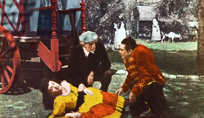 Cropped and edited lobby card for House of Frankenstein, featuring Boris Karloff, J. Carrol Naish and Elena Verdugo. Image is assumed to be in the public domain as no copyright notice is in evidence.